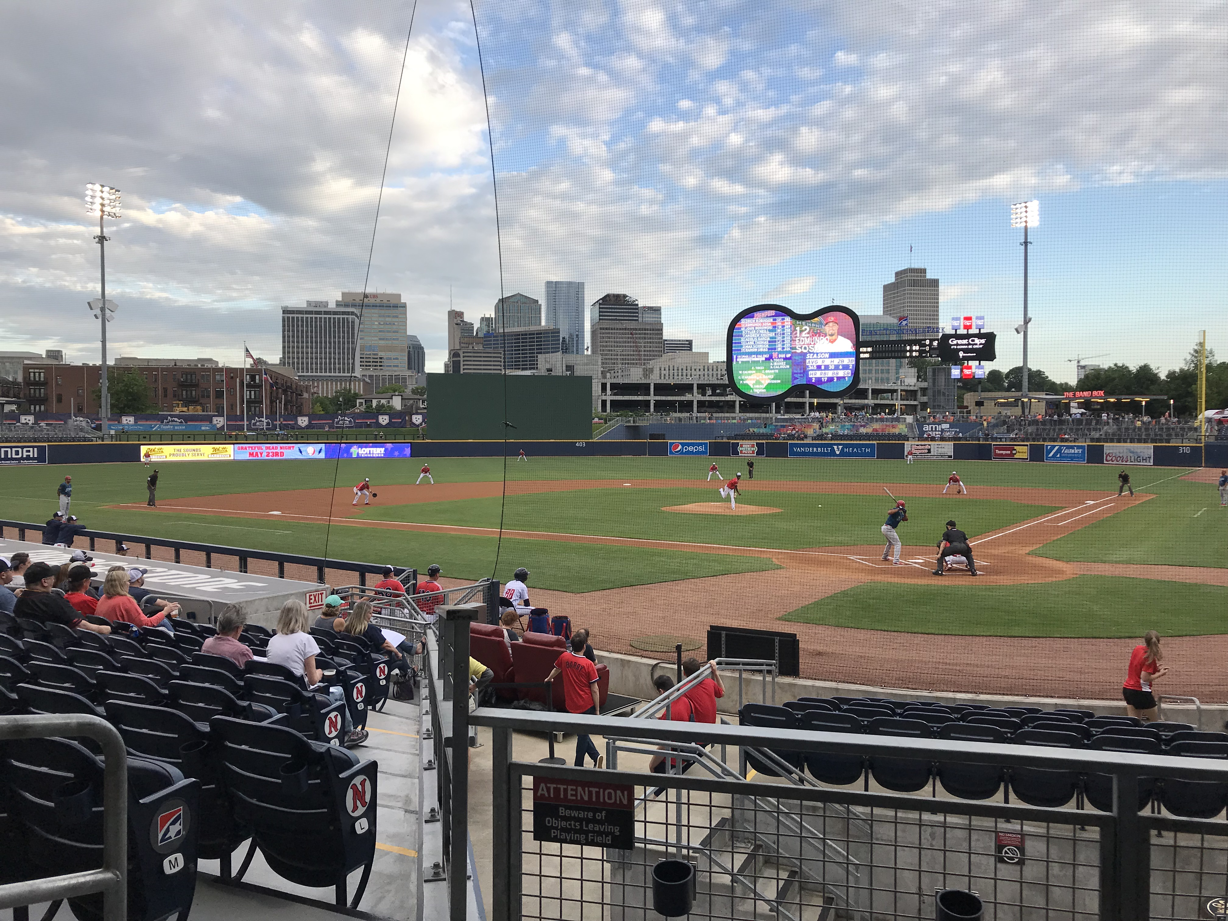 A baseball game between the Nashville Sounds and Memphis Redbirds at First Tennessee Park in Nashville, Tennessee on May 6, 2019